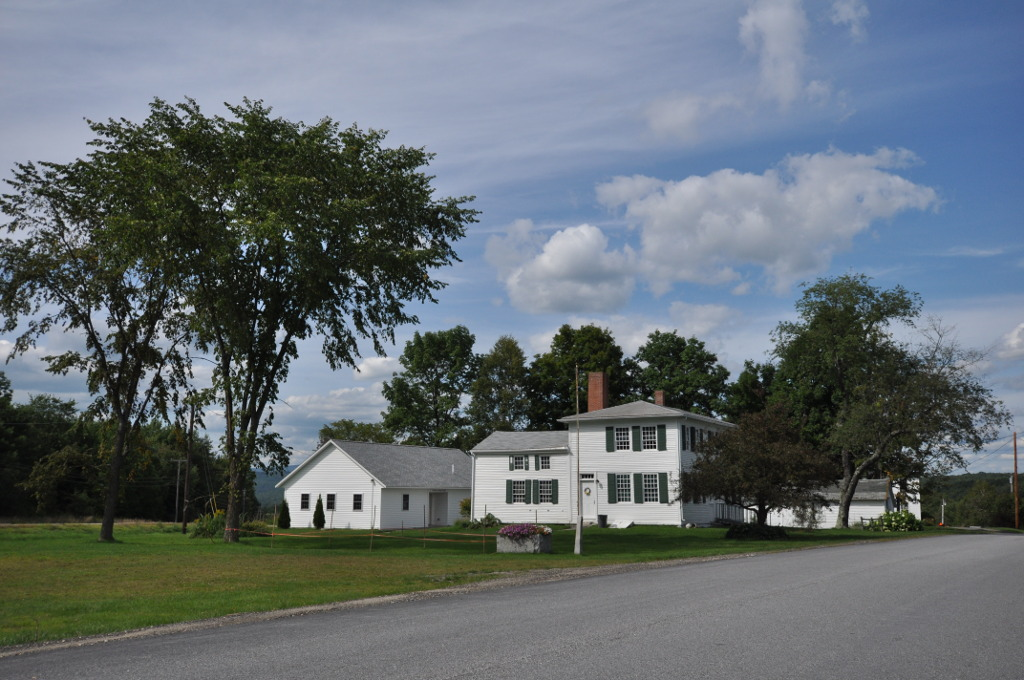 Holmes-Crafts Homestead, Jay, Maine. Now a museum property of the Jay Historical Society.